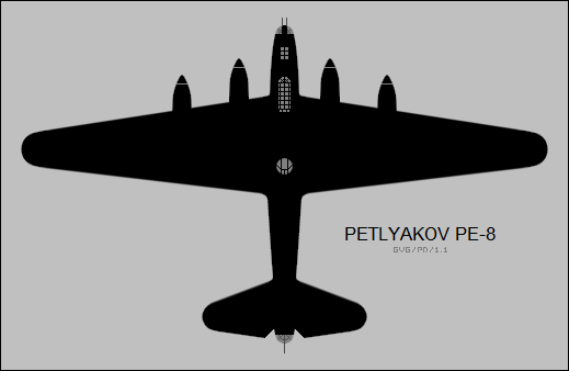 Plan-view silhouette of the Petlyakov Pe-8